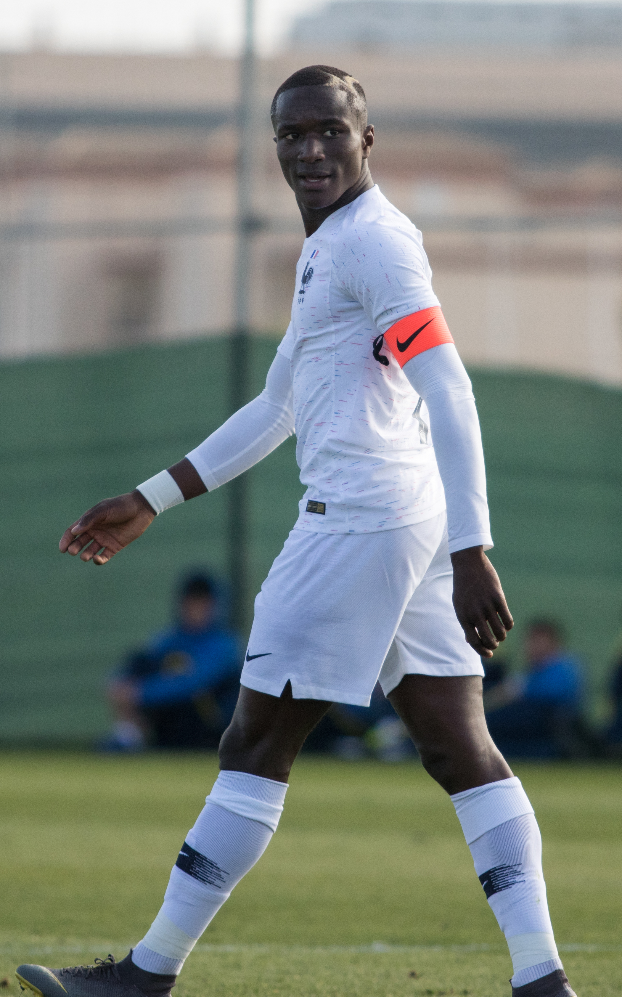 USA U20 v France U20, 22 March 2019